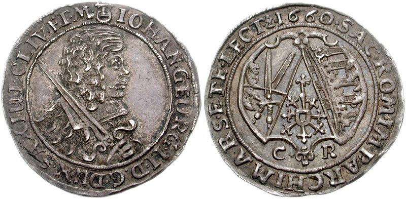 GERMANY, Sachsen-Albertinische Linie. Johann Georg II. Elector, 1656-1680. AR 1/8 Taler (26mm, 3.60 g, 2h). mint. Dated 1660. IOHAN • GEORG • II • D • G • DUX • SAX • IUL • CLIV • ET • M •, draped bust right, holding sword in right hand / • SAC • ROM • IMP • ARCHIMARS • ETE • LECT (mm), coat-of-arms. KM 472. EF, toned.